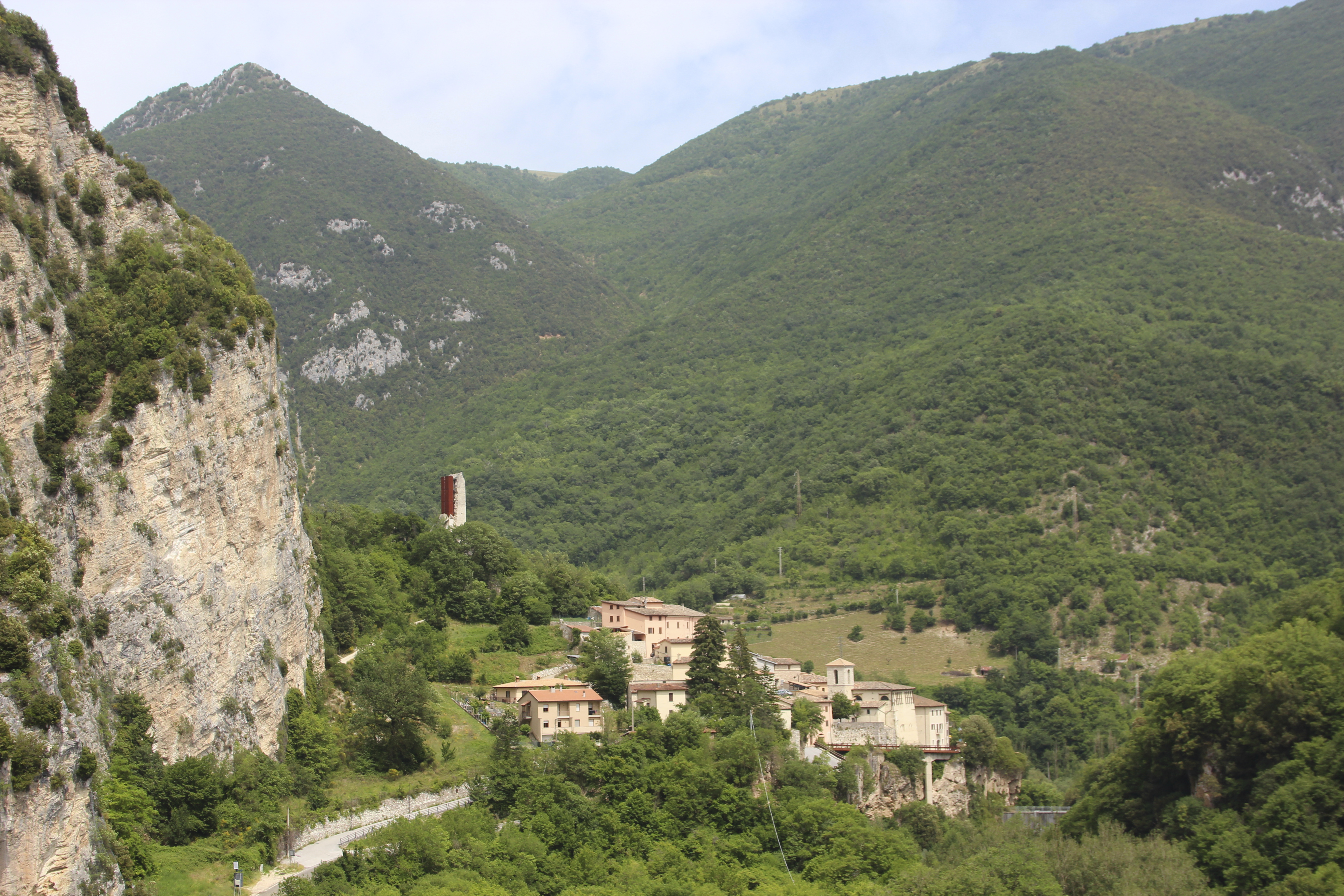 Panorama of Triponzo, hamlet of Cerreto di Spoleto, Province of Perugia, Umbria, Italy